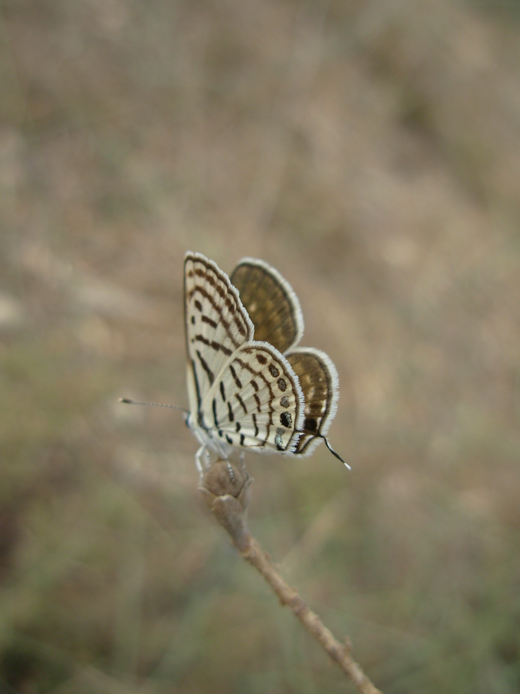 באזור באר שבע 2011